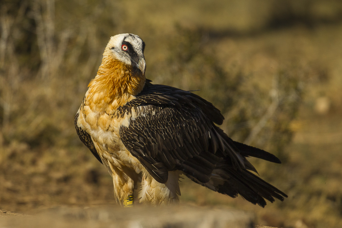 Bearded Vulture - Catalan Pyrenees - Spain